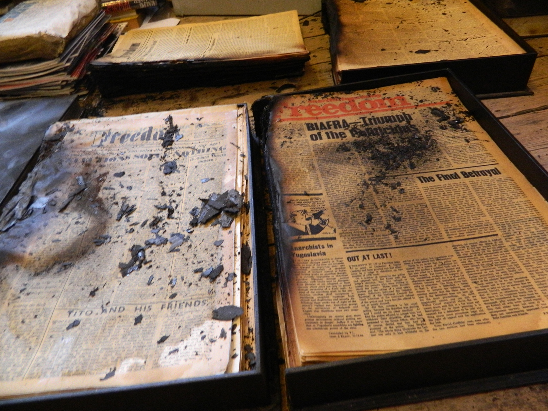 Fire damaged pages from the Freedom Press archives after the February 2013 arson attack.